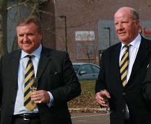 Director and chairman